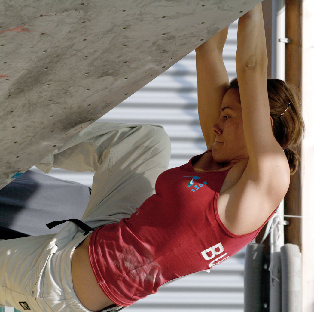 Ina Dzhambazova during qualifications at the IFSC Boulder Worldcup Vienna 2010.